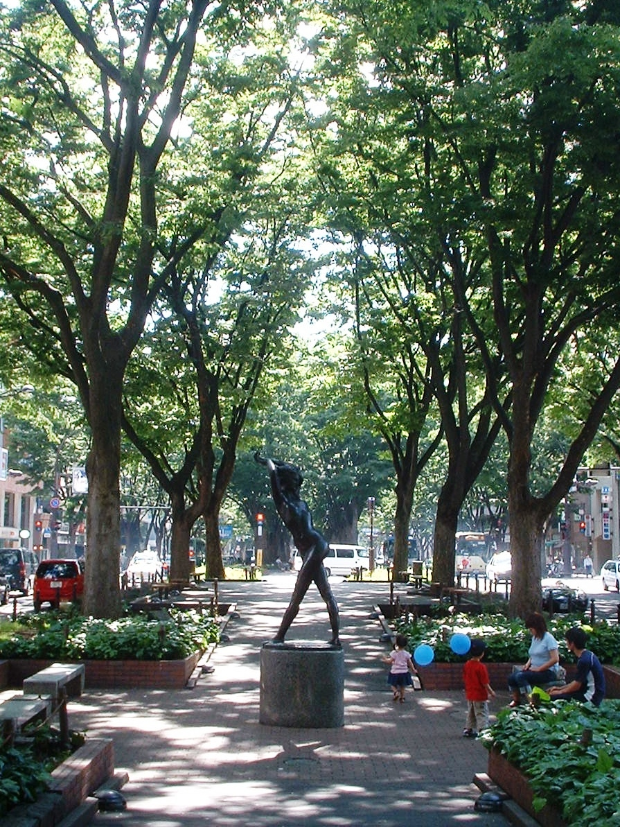 Image of Jozenji-dori Avenue in Aoba-ku, Sendai, Miyagi Prefecture, Japan. The sculpture is "Memories of Summer," by Emilio Greco.